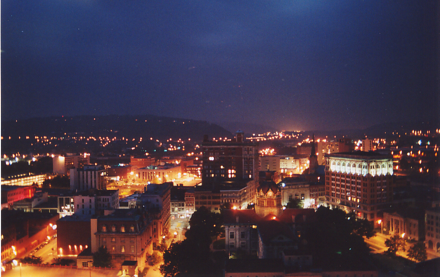 This picture was taken by a close friend (Laura Roth of Washington, DC) who gave me permission to utilize this picture on Wikipedia. I was present at the time the picture was taken and know it was originally created by her.